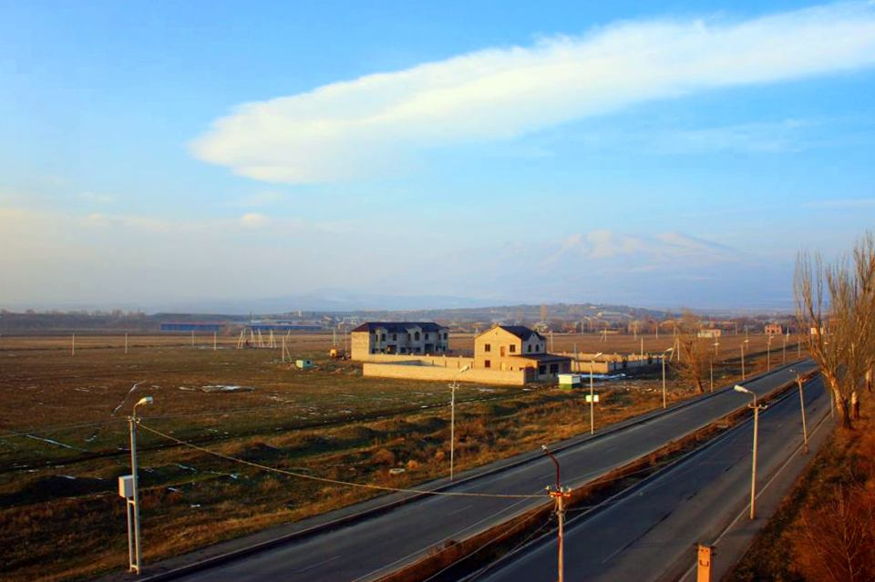 Yeghvard skyline, Kotayk, Armenia.